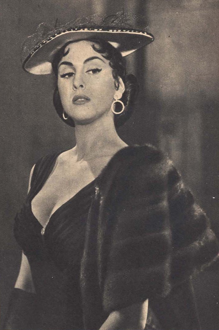 Italian actress Maria Frau on stage in the play Questi fantasmi